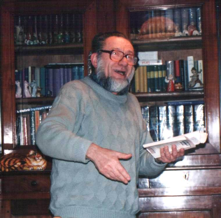 Georges Lagrange lecturing